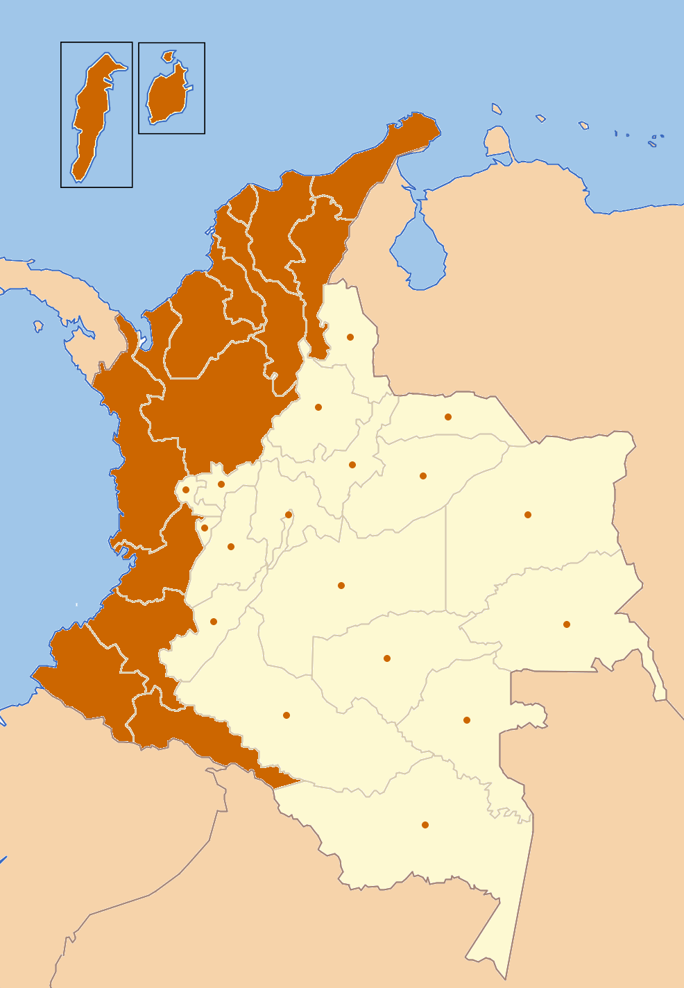 Map of the AfroColombian population in Colombia.